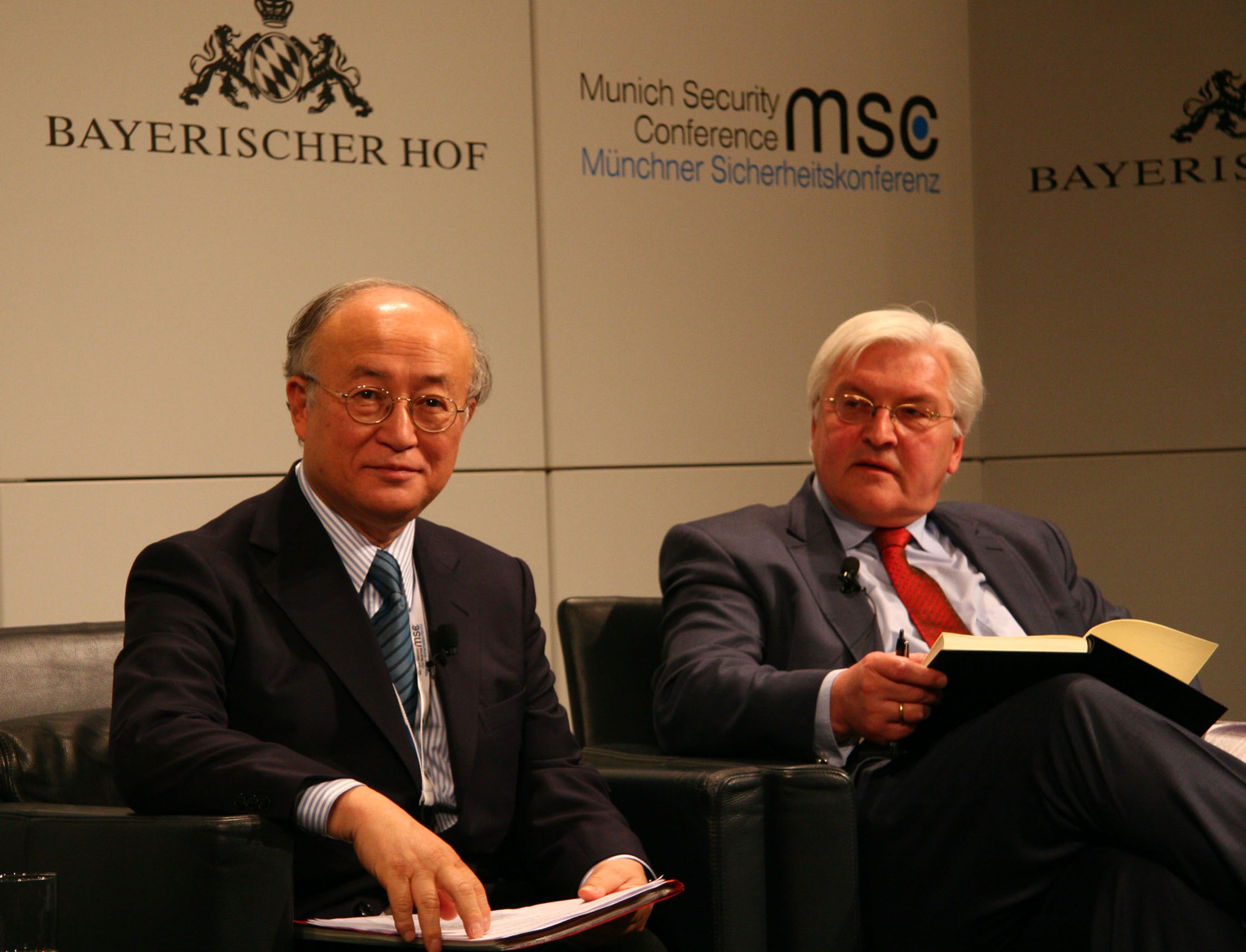 46th Munich Security Conference 2010: Yukiya Amano (le), Generaldirektor, IAEA, and Dr. Frank Walter Steinmeier (ri), Member of the German Bundestag, Chairman of the SPD Parliamentary Group